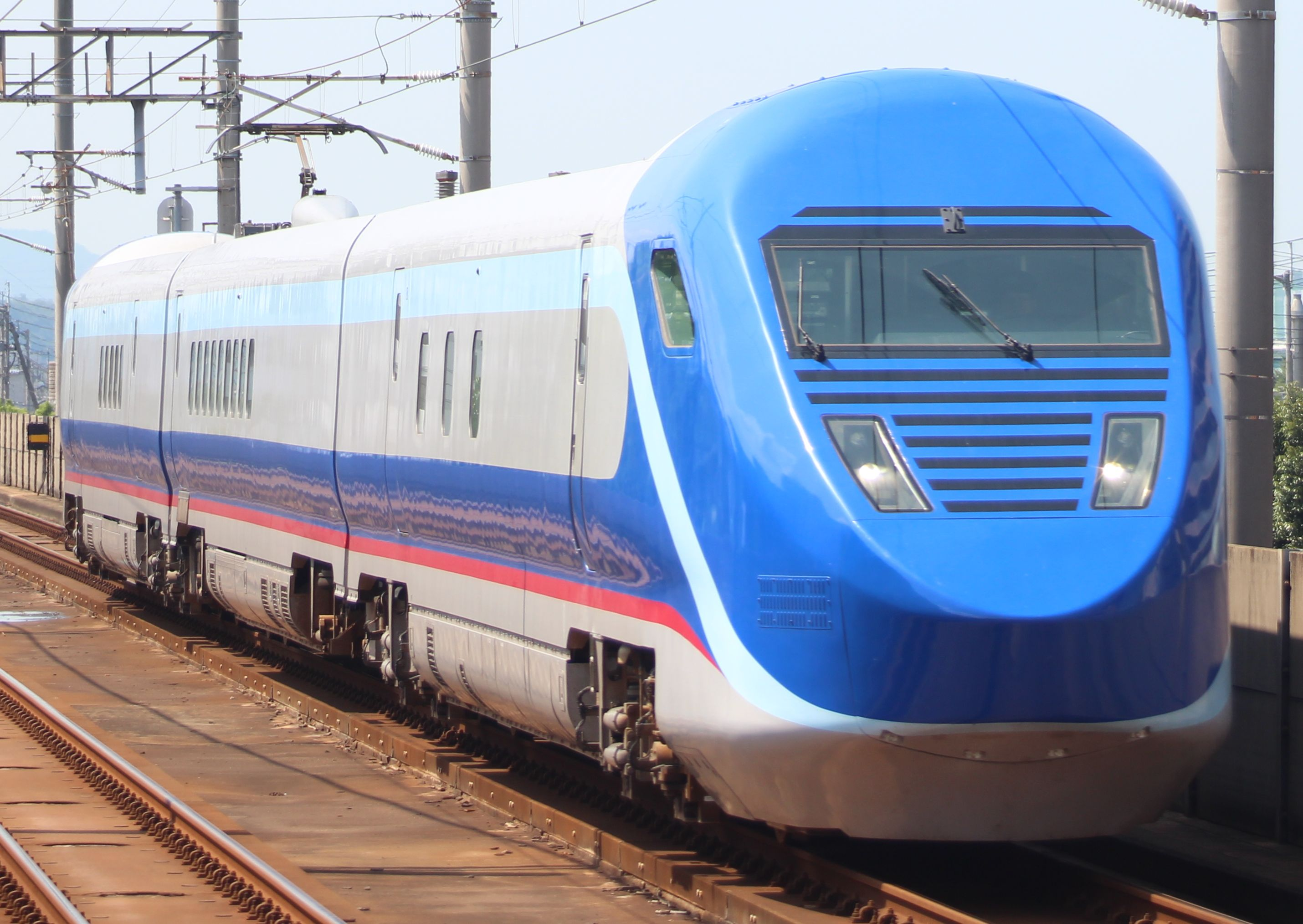 The second-generation GCT "Gauge Change Train" EMU on a test run (location unknown)